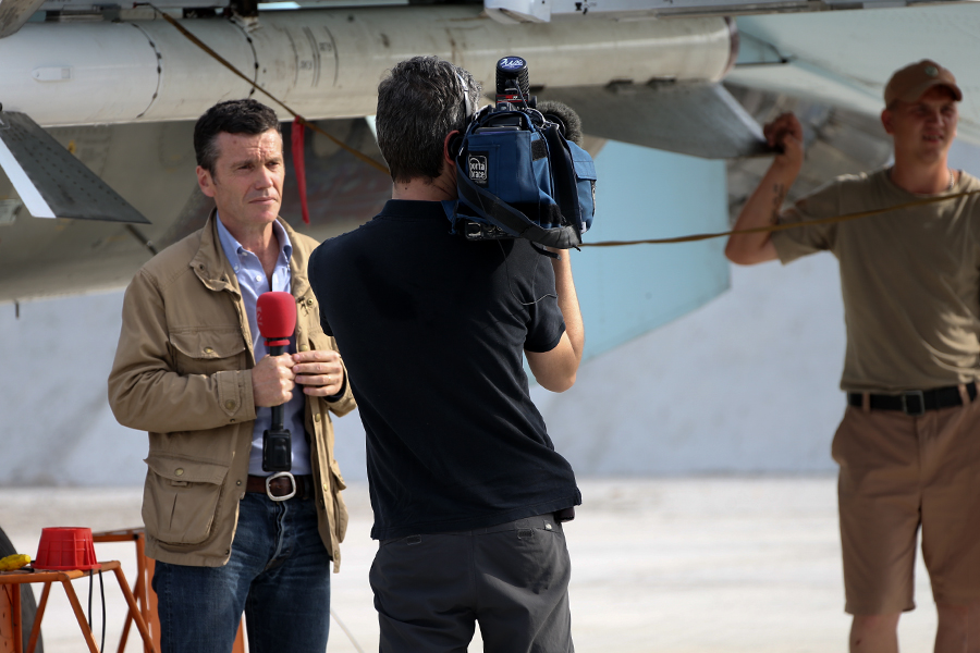 Работа журналистов на авиабазе «Хмеймим» в Сирии